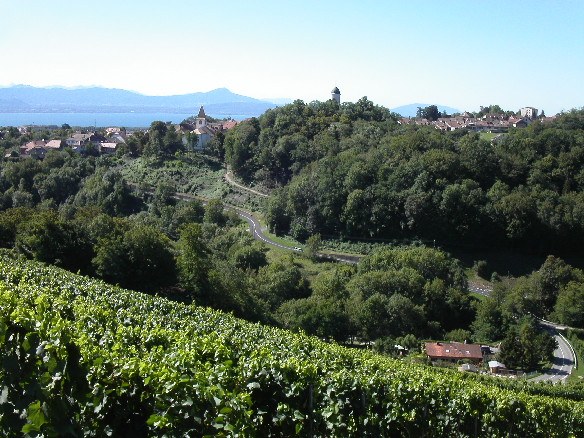 View of Aubonne, Canton of Vaud, Switzerland. In the background: Lake Geneva. In the center, the church of Aubonne. In the forest, the minaret-style tower of the castle of Aubonne.